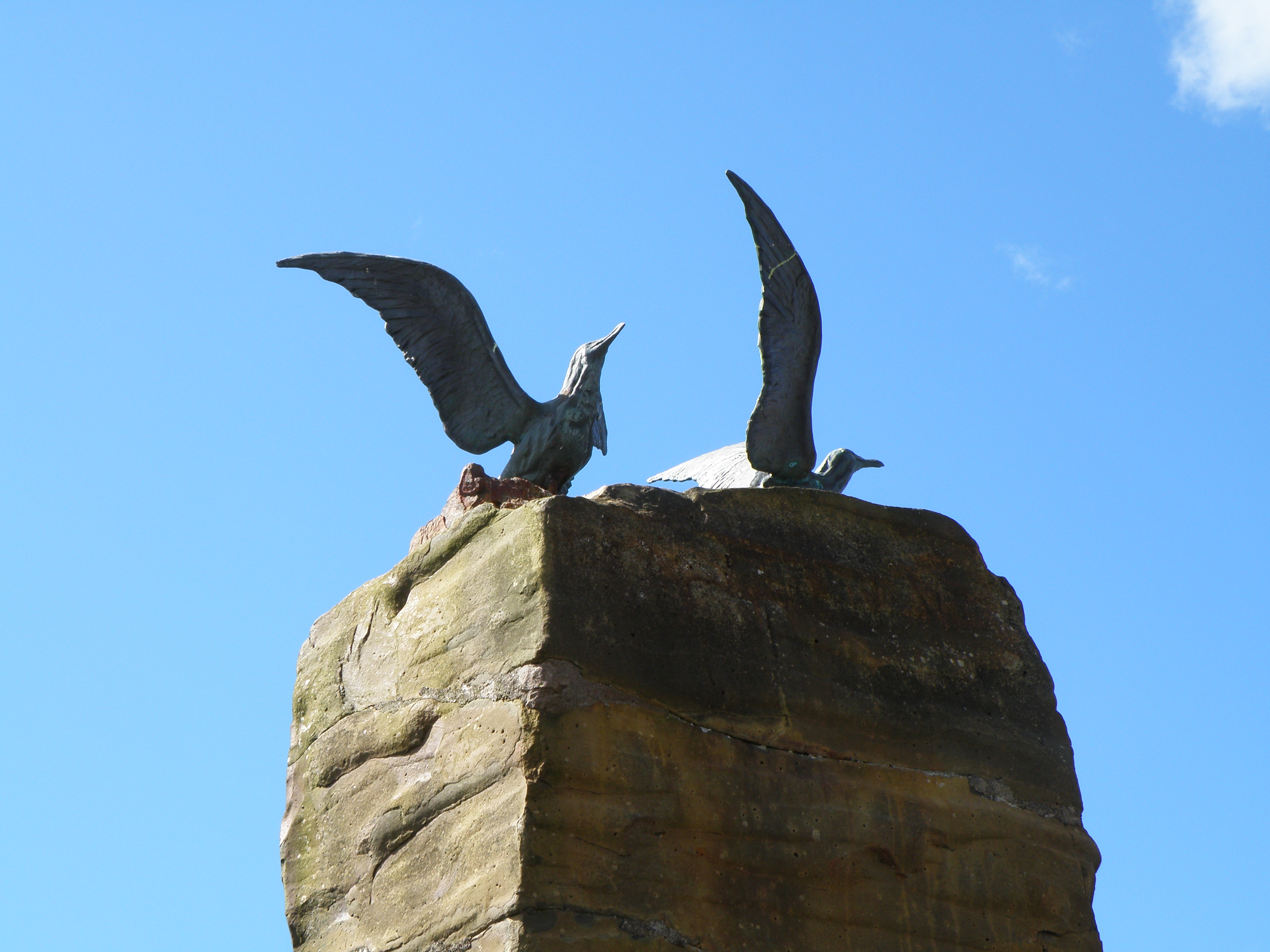 The title of this sculpture is Frælsi, which is the Faroese word for Freedom. The title is inspired of a Faroese song with the same title, which Eyðun Nolsøe from the band Frændur has written and composed. The sculpture is made by sculpturor Palle Julsgart, a Danish artist, who has lived in Tvøroyri, Faroe Islands since 1985. He is the owner of Art Gallery Oyggin. Oyggin is the Faroese word for Island and refers to Suðuroy. Julsgart has used columnar basalt in the foundament of this sculpture. Føroyskt: Heitið á hesi standmyndini er Frælsi. Palle Julsgart, myndahøggari, hevur gjørt standmyndina. Stabbin er evnaður av stabbagróti úr Froðba. Fuglarnir symbolisera Frælsi, sum Eyðun Nólsøe úr Frændum syngur um í einum sangi við sama heiti.